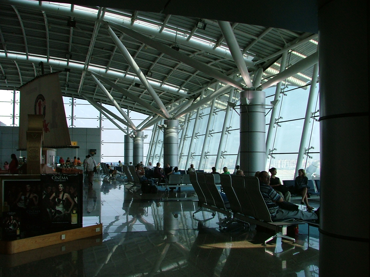 Interior of Cairo Airport Terminal 1